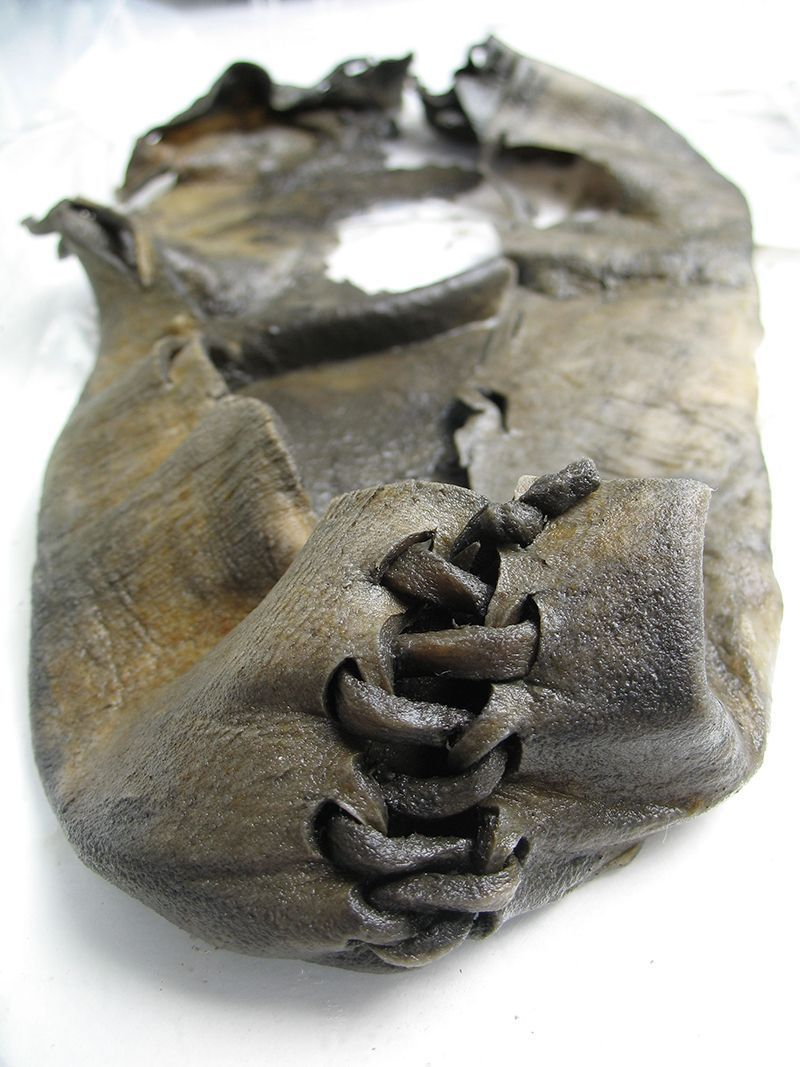 Leather shoe discovered in the Jotunheimen Mountains in eastern Norway in 2006. Archaeologists estimate that the shoe was made between 1420 and 1260 BCE.